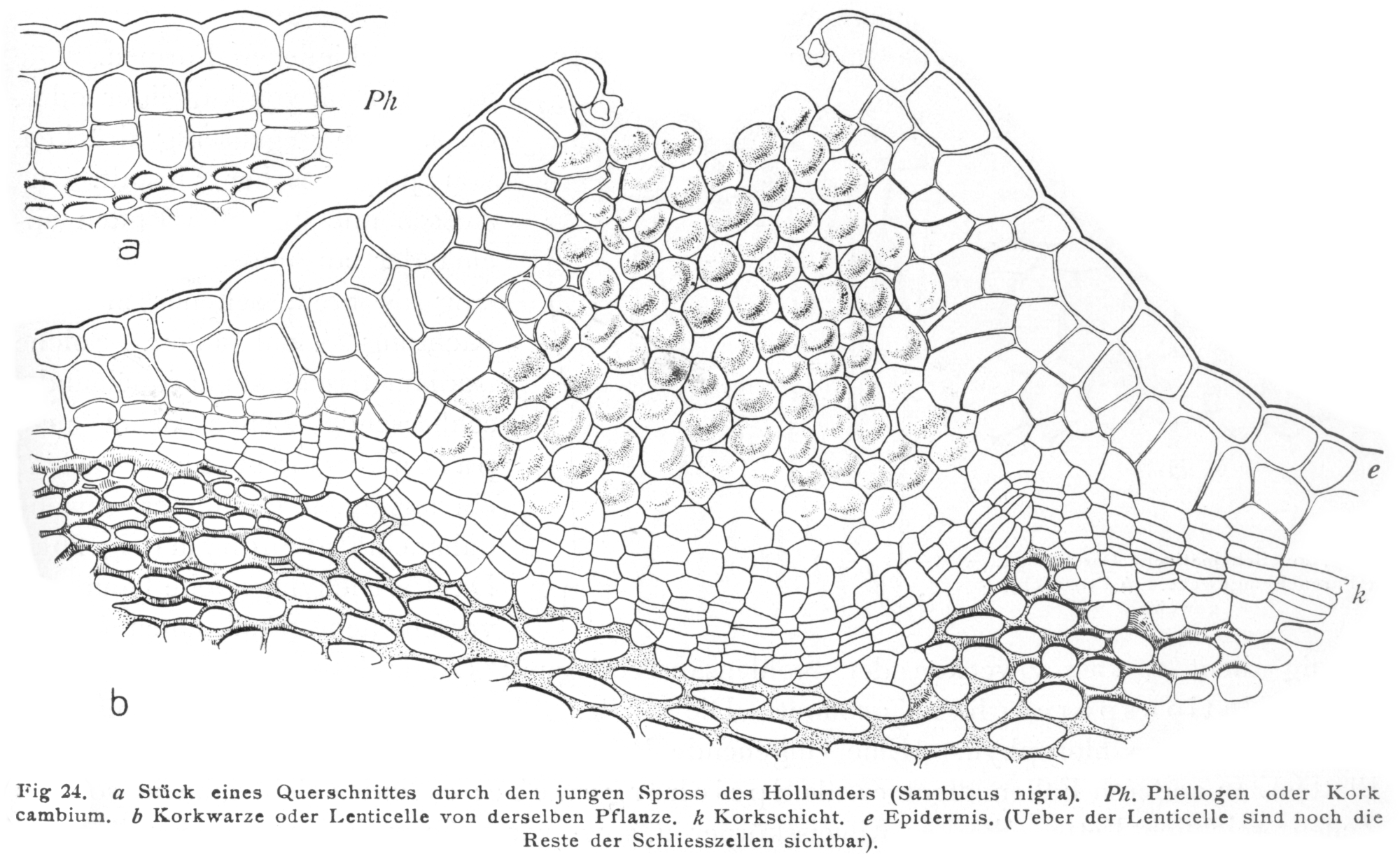 Figure 24 from Hegi, G.: Illustrierte Flora von Mittel-Europa, p. 31. Caption: Fig. 24 a Partial cross-section of the young shoot of the elder (Sambucus nigra). Ph. Phellogen or cork cambium. b Lenticel of the same plant. k Cork layer. e Epidermis. (Above the lenticel the remains of the stomata are still visible).